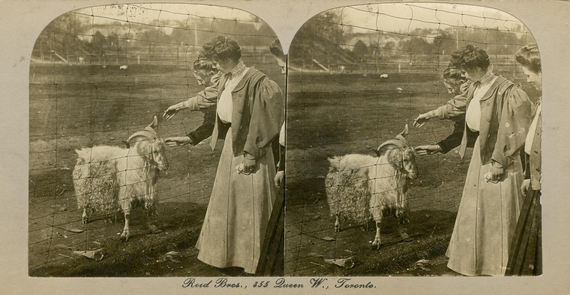 Stereo card showing women with a mountain goat at the zoo in Riverdale Park. Toronto, Ontario, Canada. Original caption: “Reid Bros., 355 Queen W., Toronto”